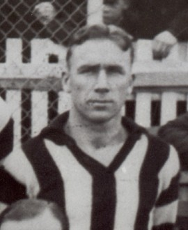 Photo of Ron Dowling in 1939